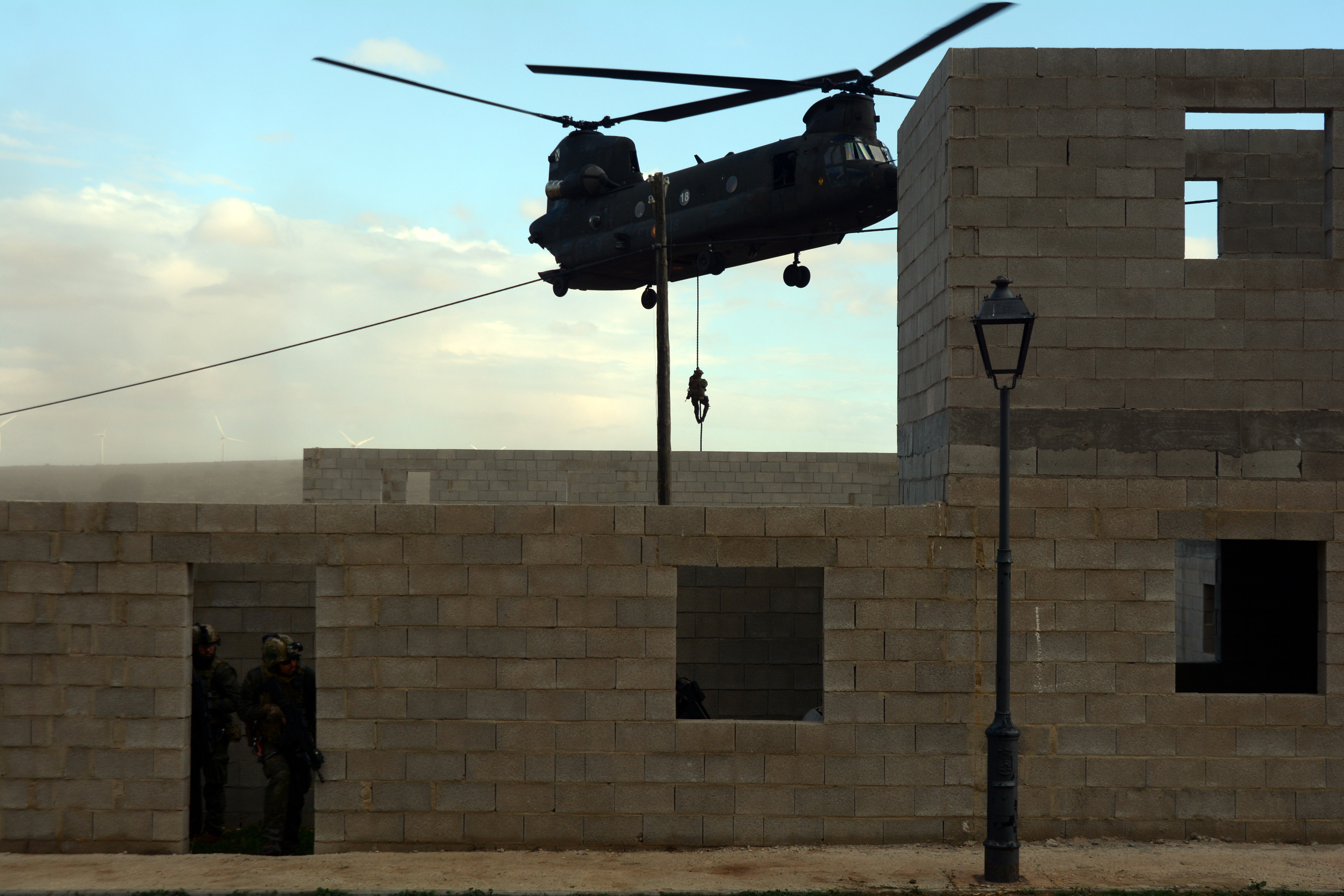 During an Air Assault Operation, a Spanish SOF member fast ropes over an urban area at Chinchilla training area, Spain on October 27, 2015 during Trident Juncture 15. (COMBAT CAMERA TEAM of LPAO CHINCHILLA TJ15)